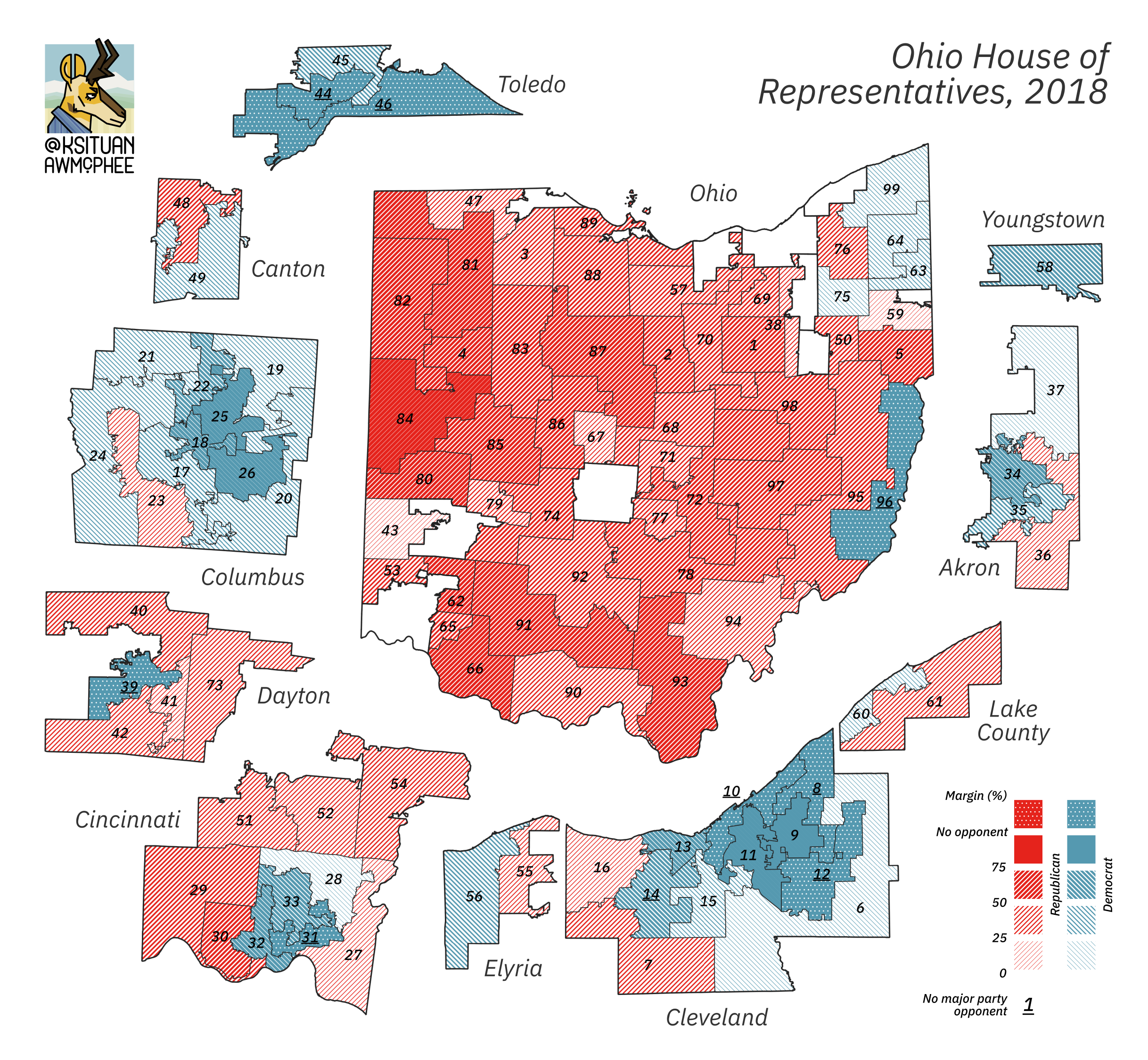 A series of state legislative election maps, created from open data during the summer of 2020. Their common visual style is designed to accomodate all of the unique features of American democracy. They were created using QGIS and Inkscape, two free programs. Please use freely and contact the author with any inquiries about visualizing election data with open-source tools.